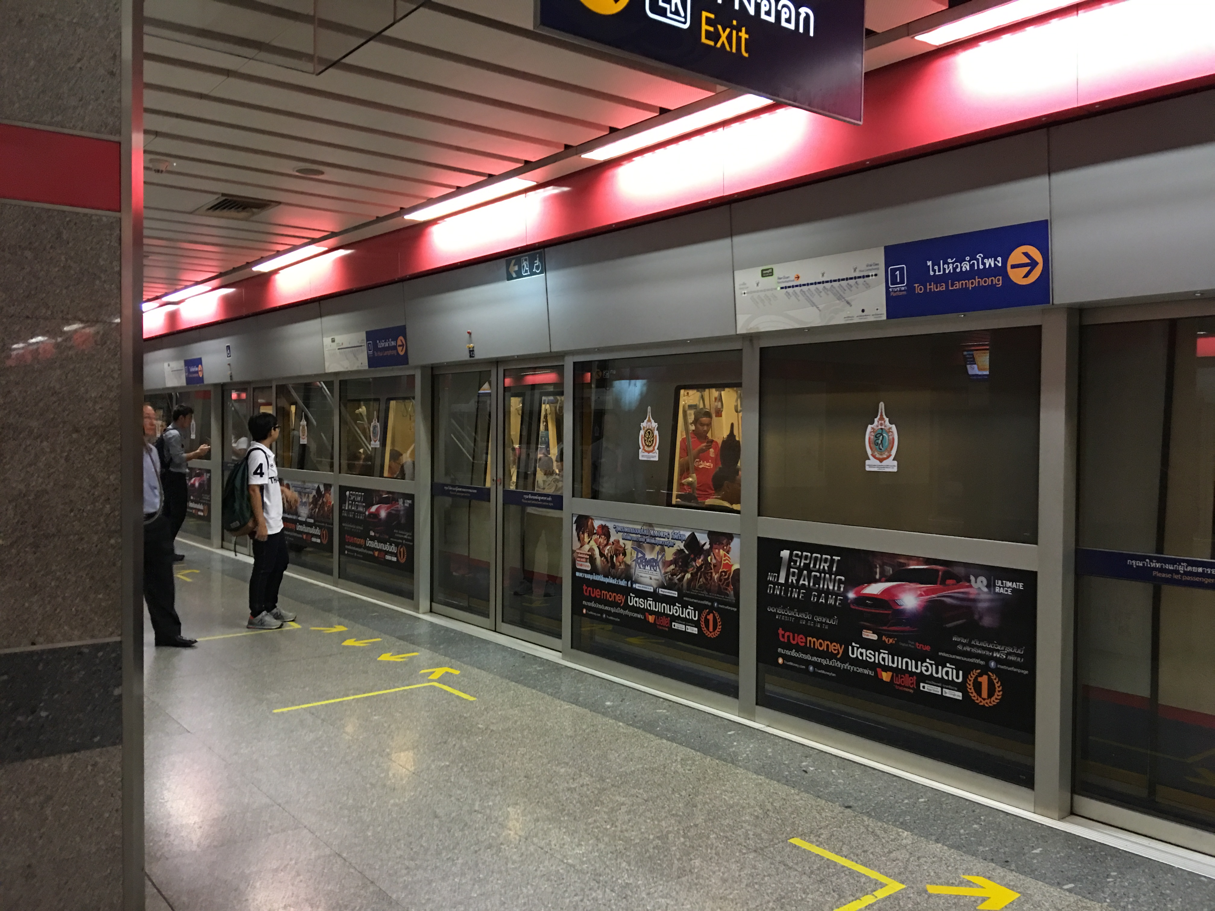 The platform level of Ratchadaphisek Station